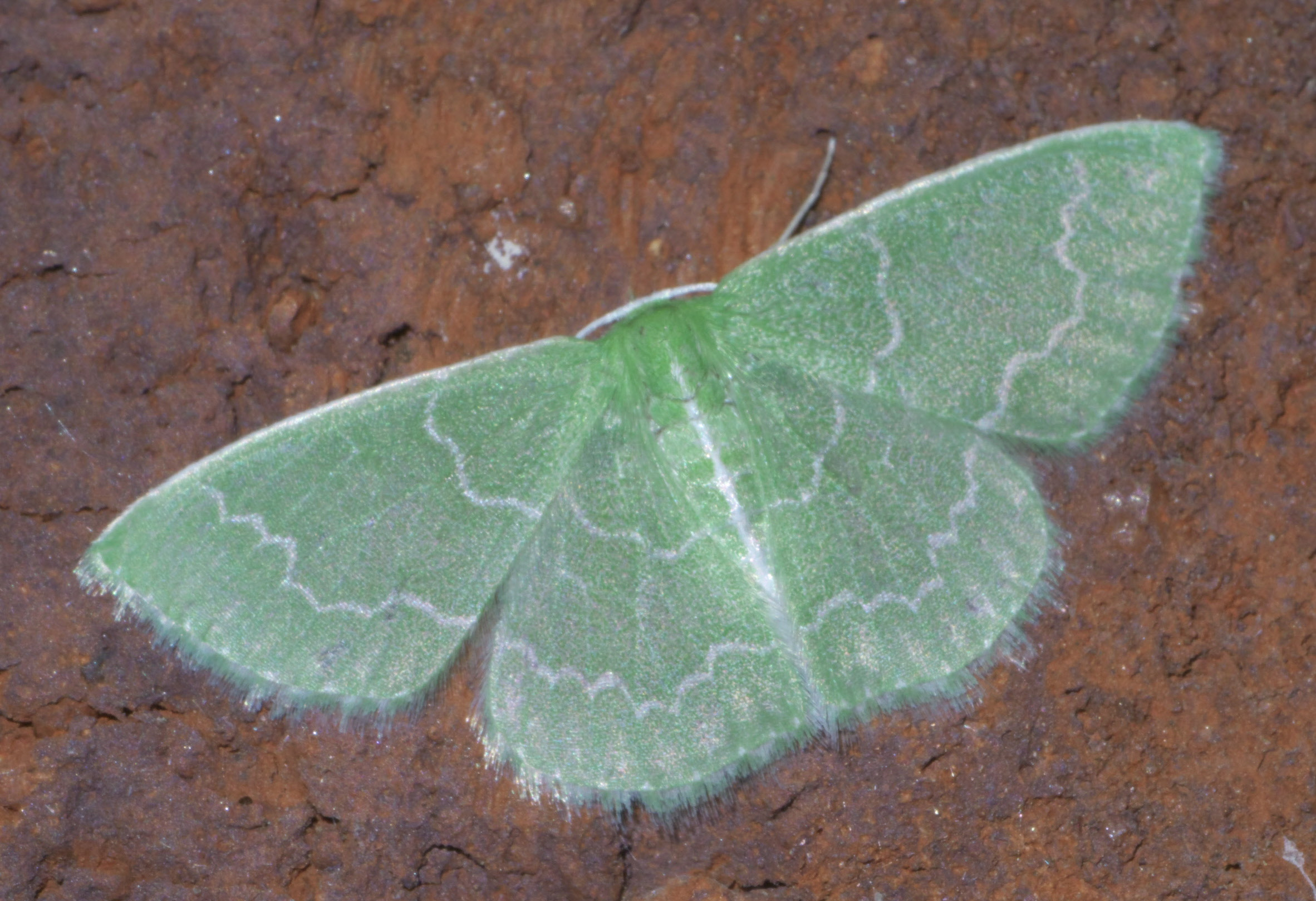 Synchlora frondaria, Southern Emerald Moth - Hodges #7059, ID Confidence: 90